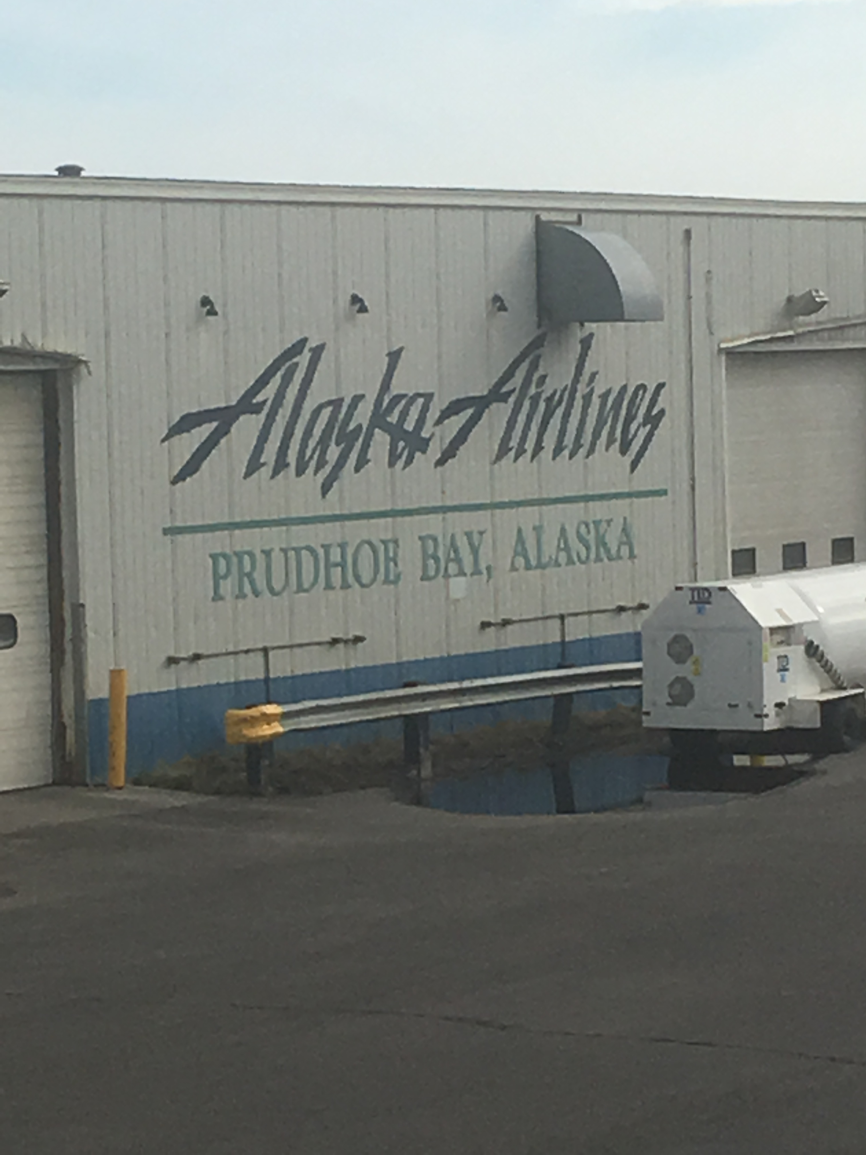 Deadhorse Alaska (Prudhoe Bay) Airport taken from an Alaskan Airlines plane